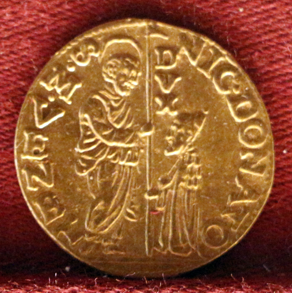 Coins of Venice in the Museo Correr (Venice)